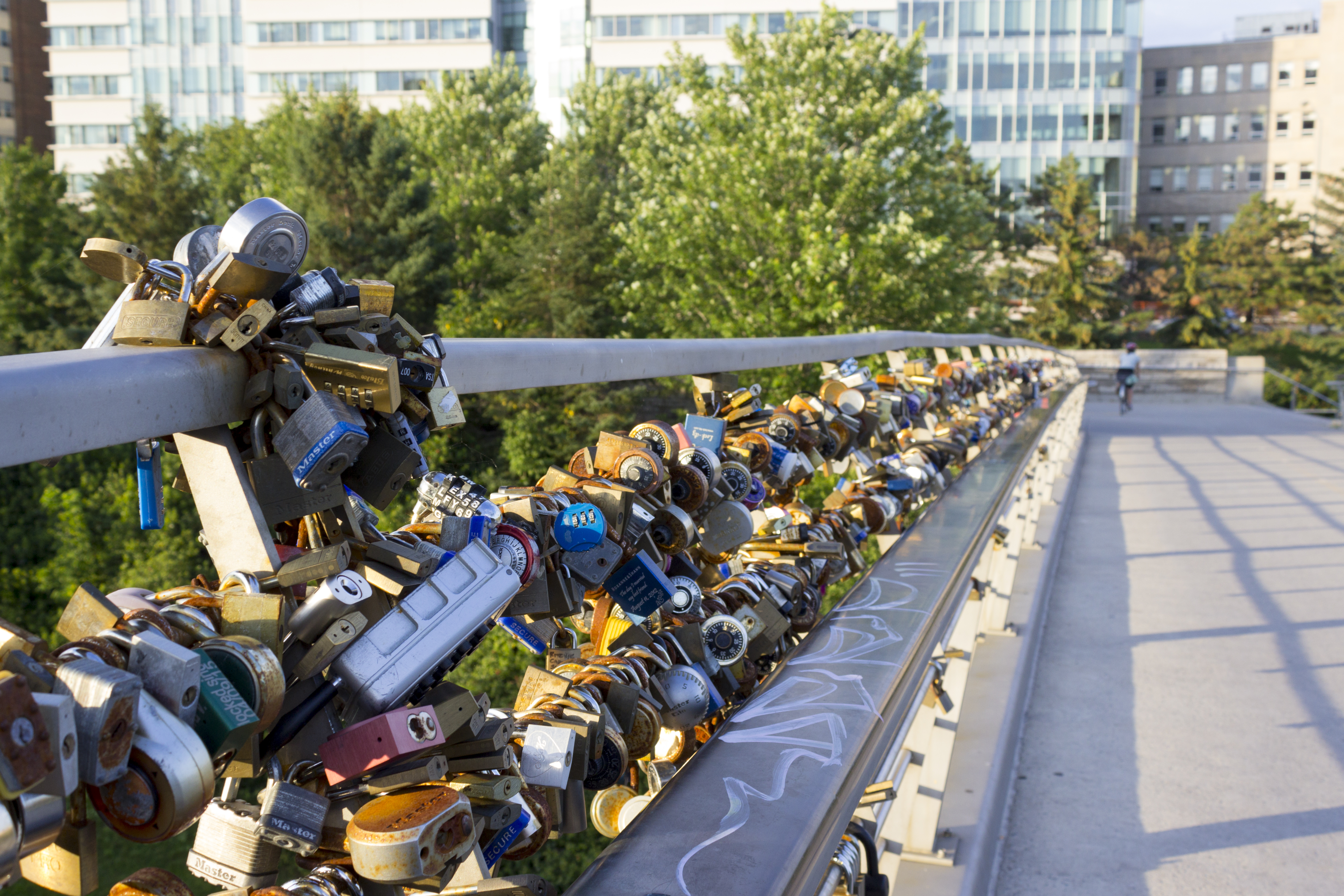 Photo is a close-up shot of Love Padlocks on the Corktown Footbridge on August 14th, 2017.